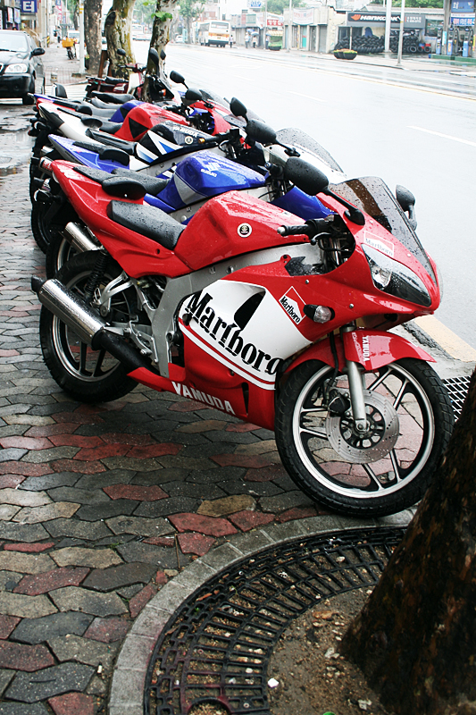 Not YAMAHA (^-^; Suwon-si It's YAMUDA. @Suwon-si（水原市） Yamaha R1 look fairing